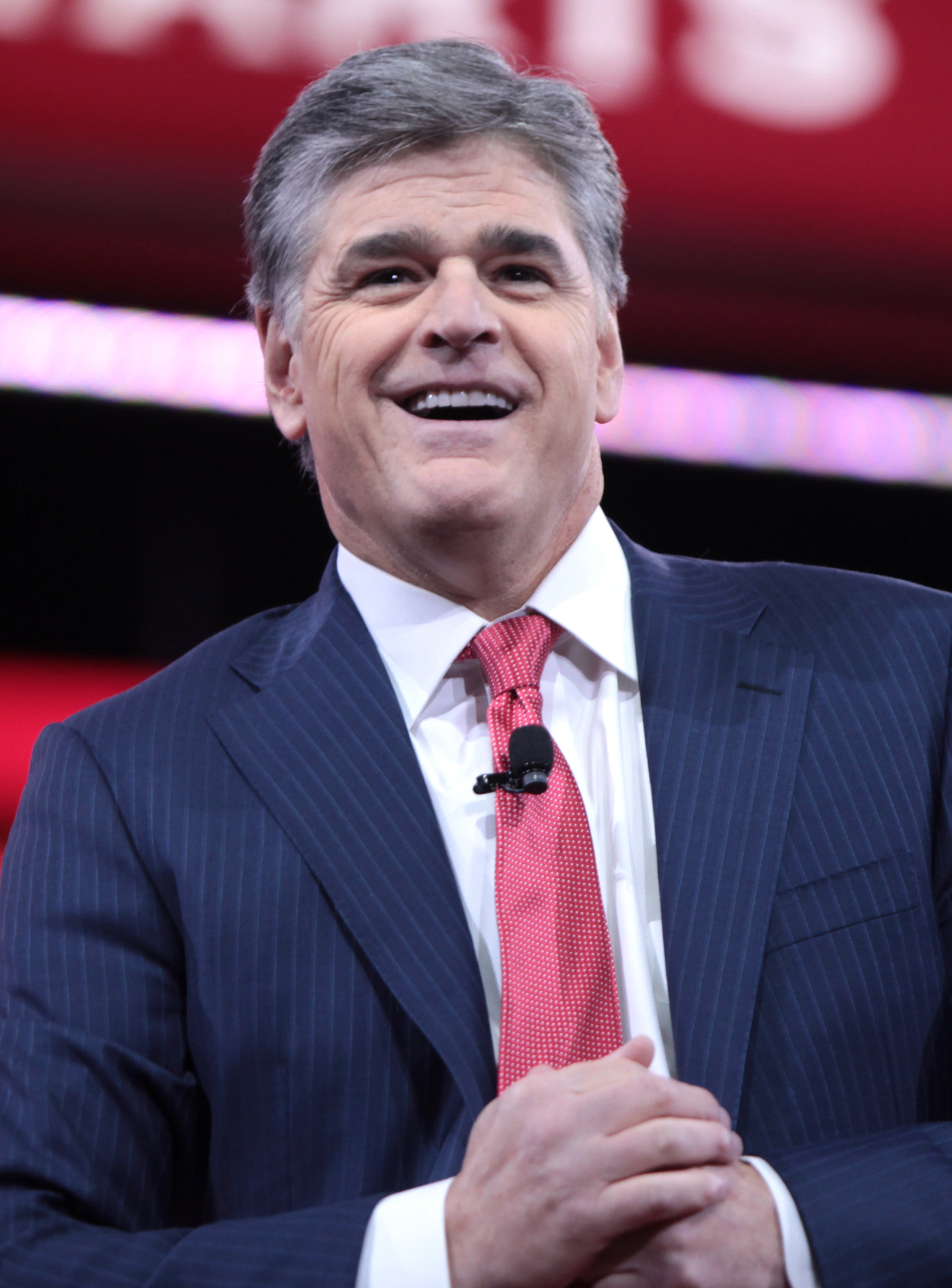 Sean Hannity speaking at CPAC 2015 in Washington, DC.